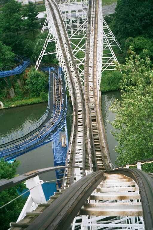 The 96-foot first drop of the Comet at Hersheypark. Immediately afterwards is the 180-degree turn and second drop. Note the blue SooperDooperLooper track on the left.